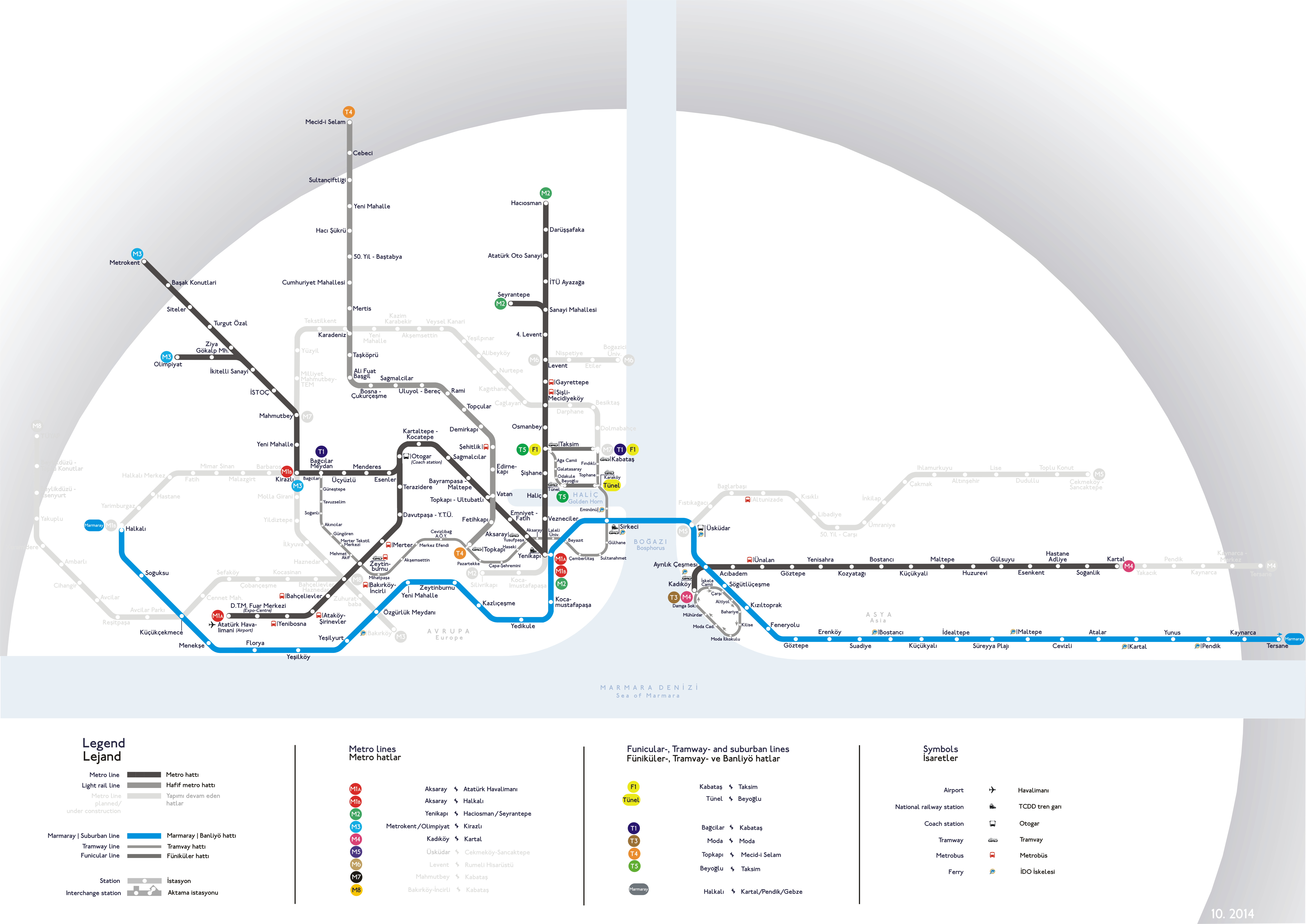 Marmaray Project Istanbul Suburban Rail